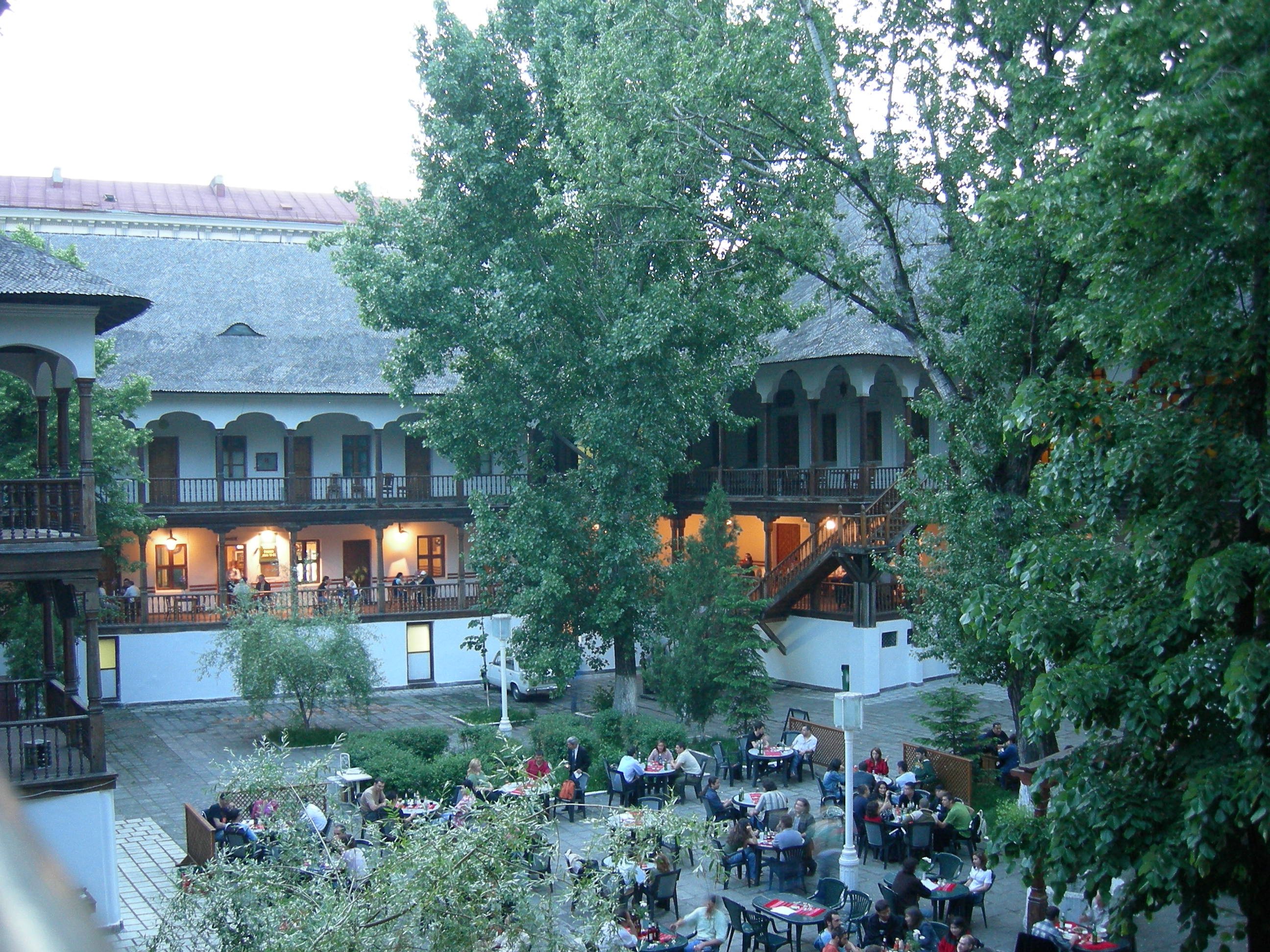 Courtyard of Manuc's Inn (Hanul Manuc) — in Bucharest, Romania.